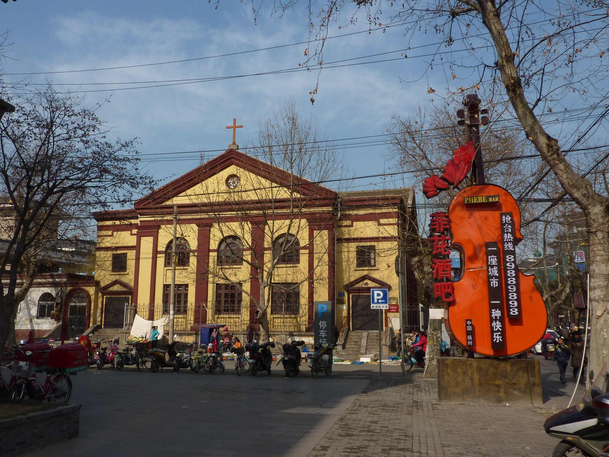 Cuiyuan St. Church, a Protestant Church at Wenchang St and Guoqing St in Yangzhou